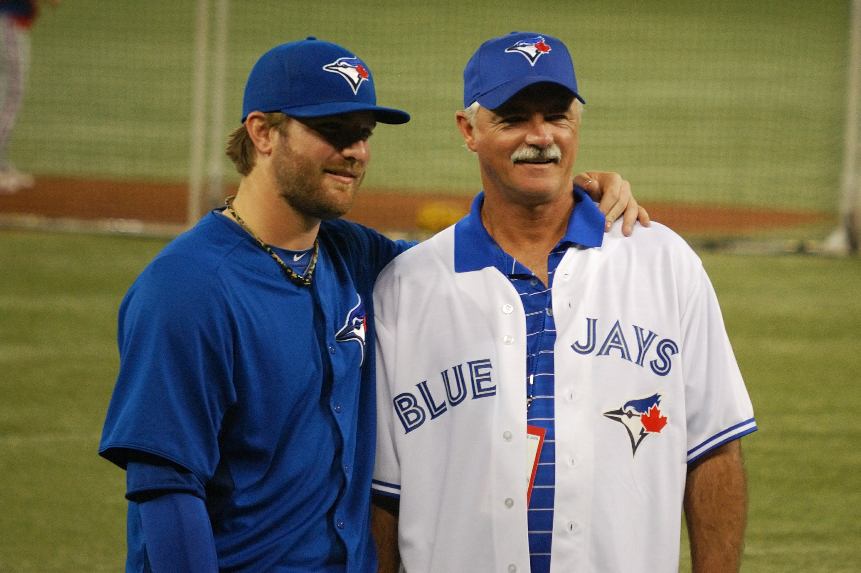 Father and son Doug Drabek and Kyle Drabek in 2012